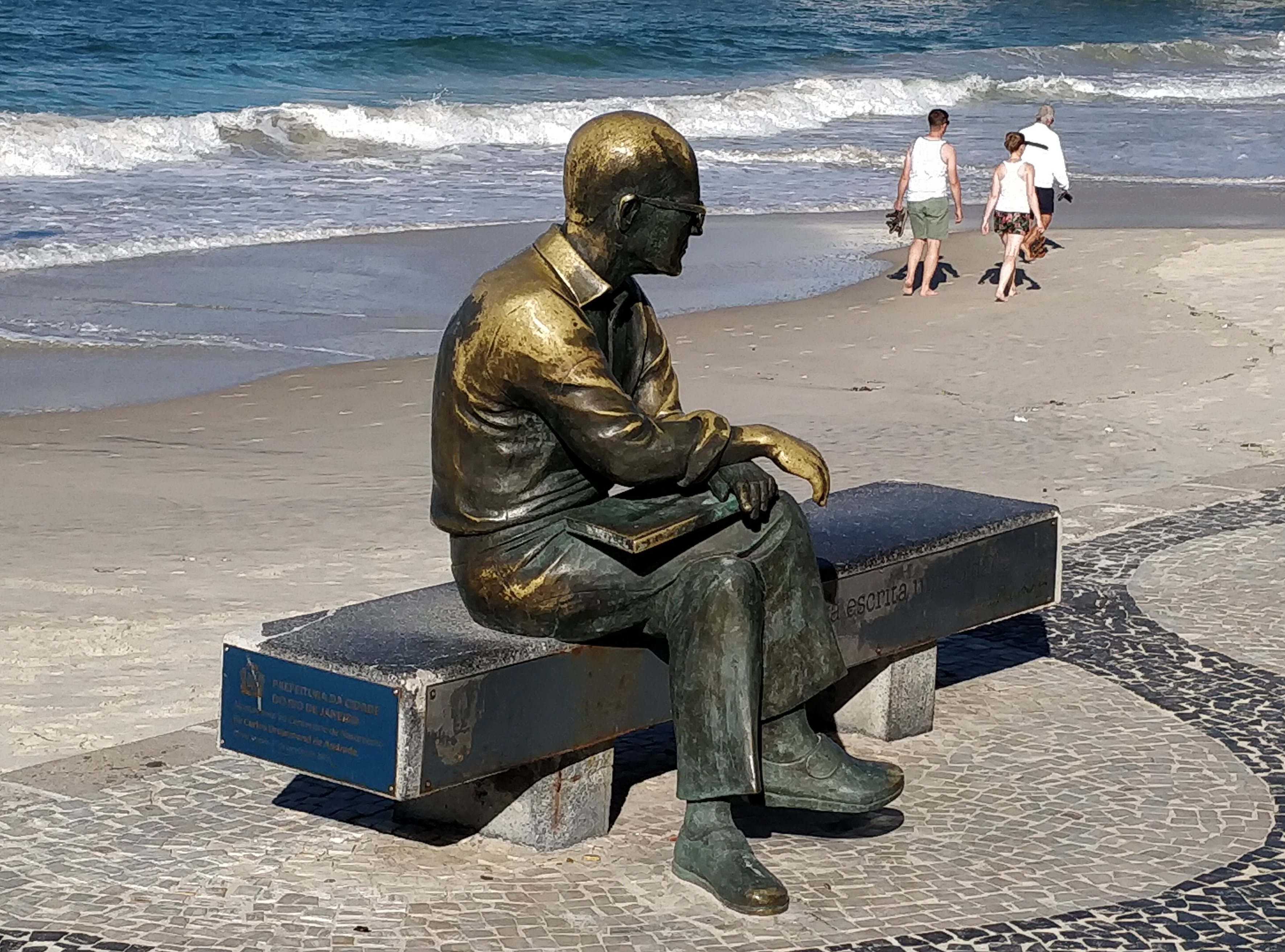 Statue of Carlos Drummond de Andrade by Copacabana Beach. This is a popular tourist attraction in Rio de Janeiro